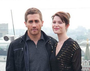 Actors Gemma Arterton and Jake Gyllenhaal, May 11, 2010 in Moscow